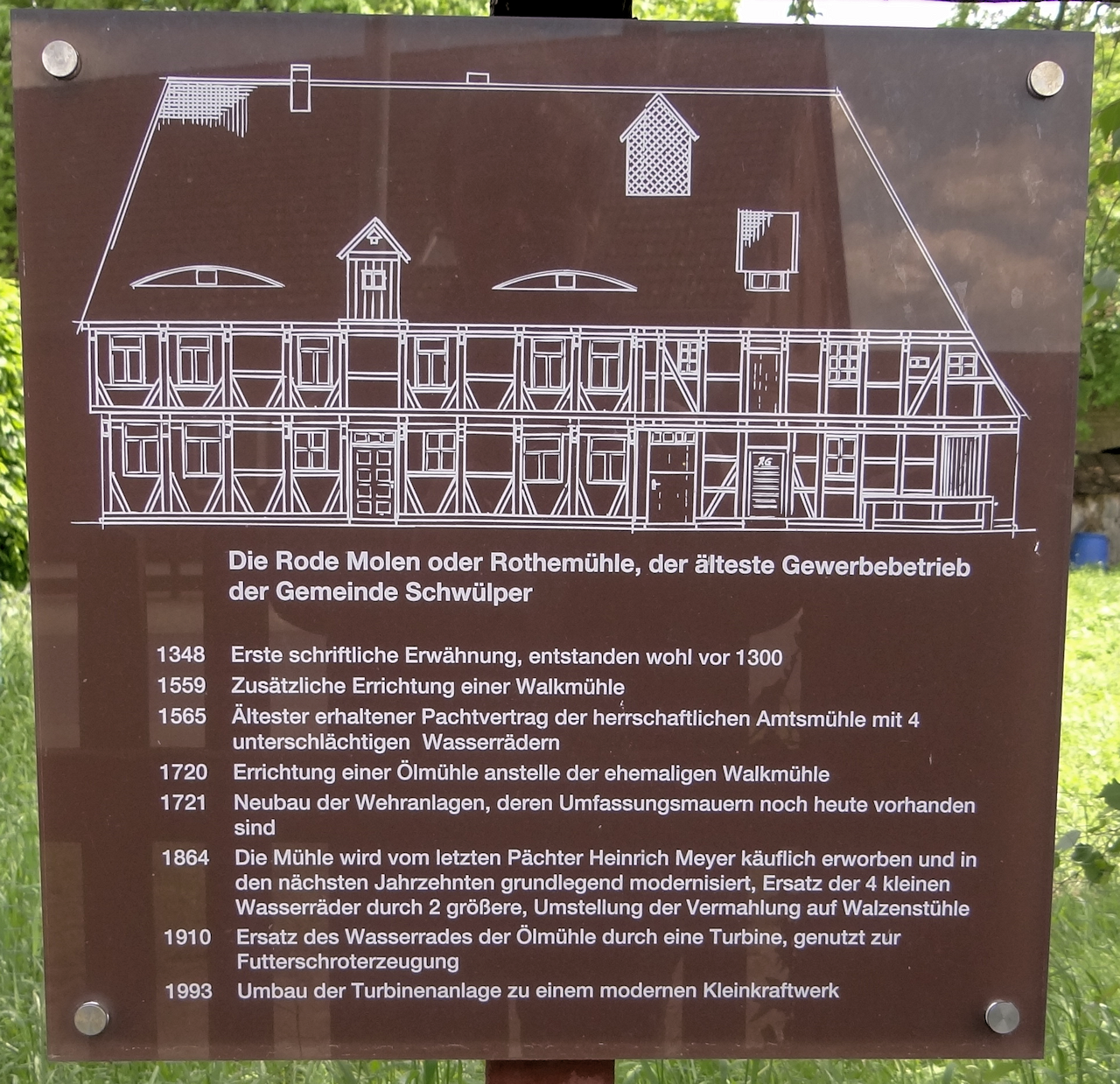 Information board at Rothemühle (Schwülper)